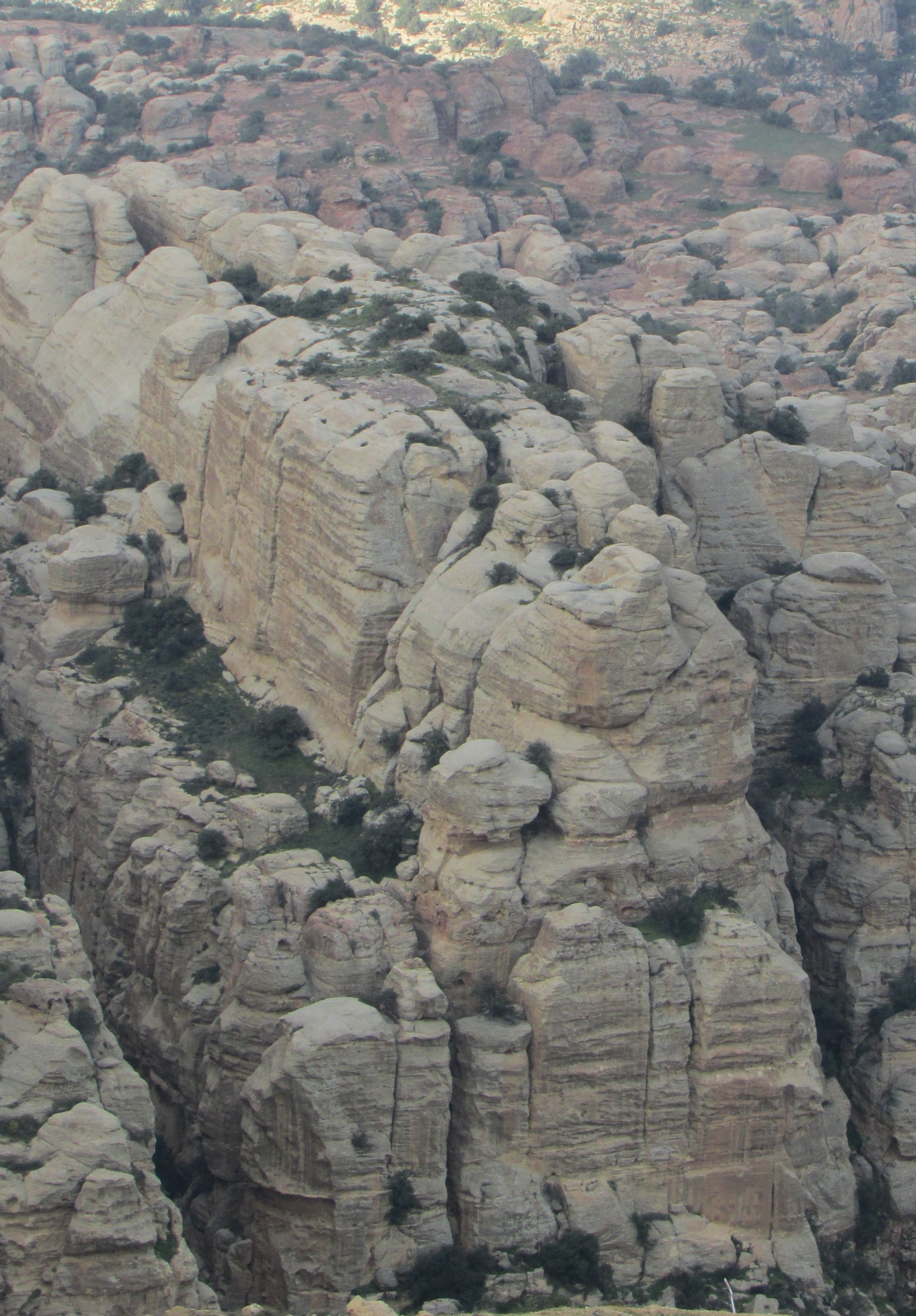 Shag-Rish Edomite fortress in the Dana reserve.